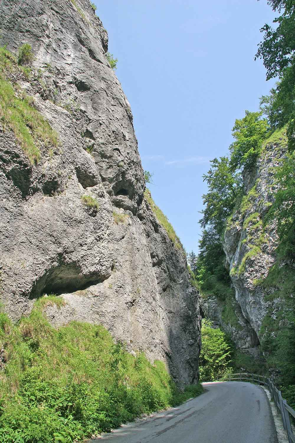 The gorge Manínská tiesňava in the Strážov Mountains, a part of the Carpathian Mountains, close to the city of Považská Bystrica, Slovakia.